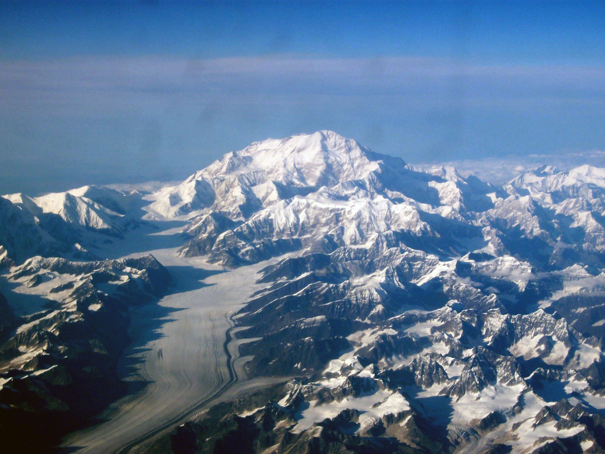 McKinley taken from the back of a Boeing 737 on September 10, 2003 on an Alaska Airlines flight from Red Dog Mine to Anchorage.